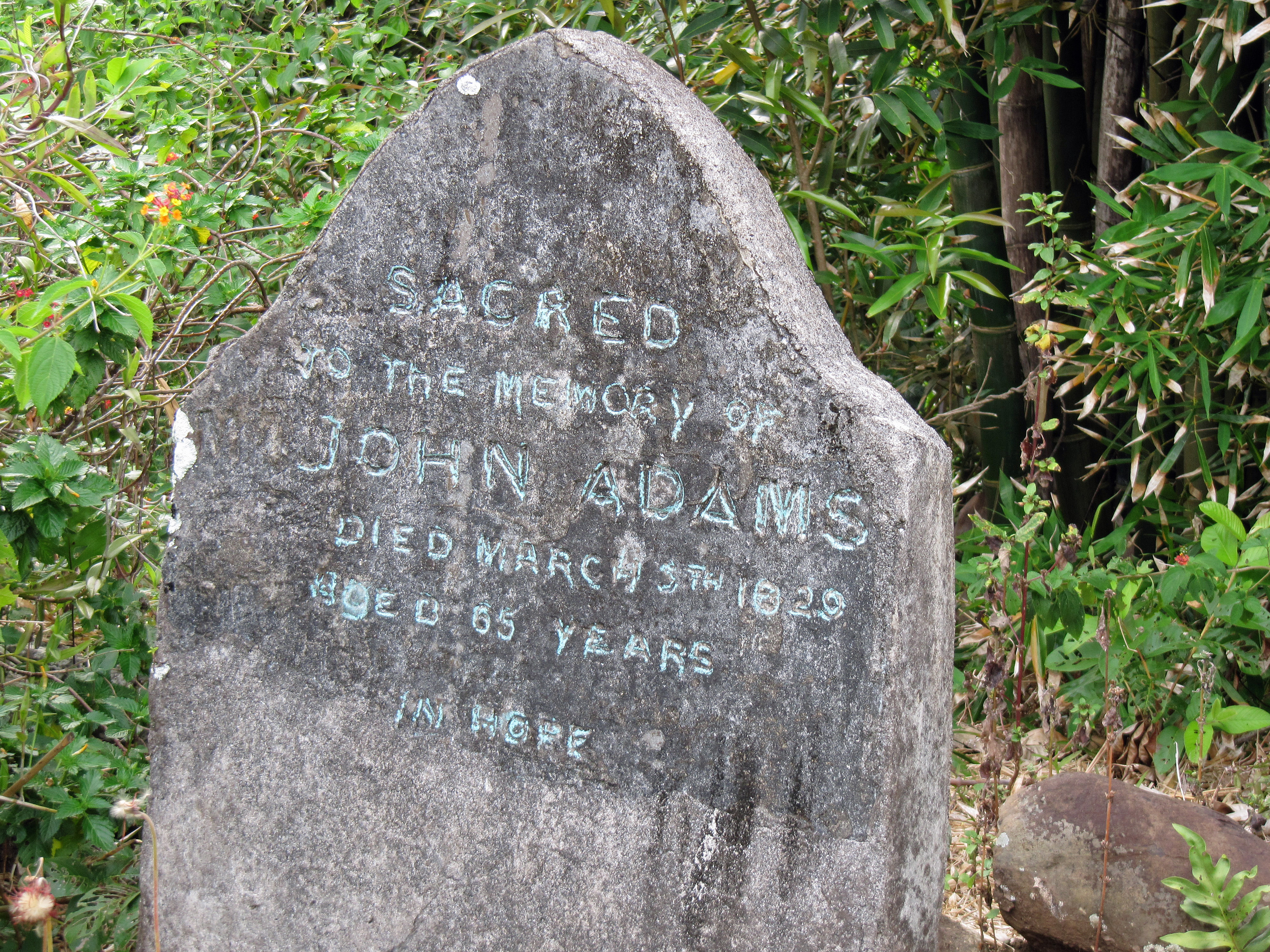 Grave of John Adams